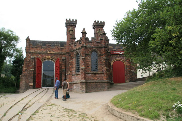 Museum of the Gorge, Ironbridge. Former wharfage warehouse that is now home to the Museum of the Gorge (one of the 10 museums of the Ironbridge Gorge Museums Trust).